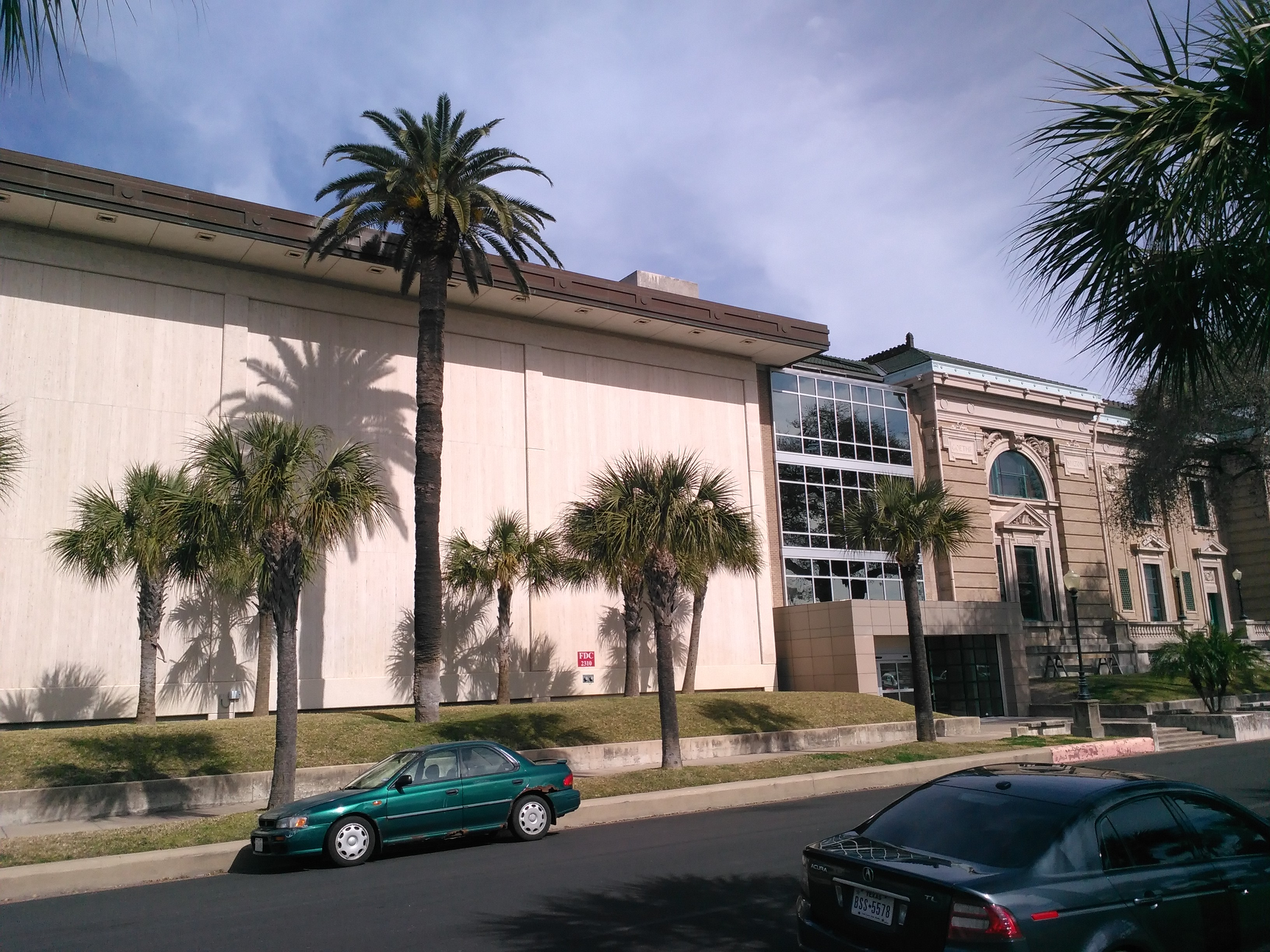 Rosenberg Library